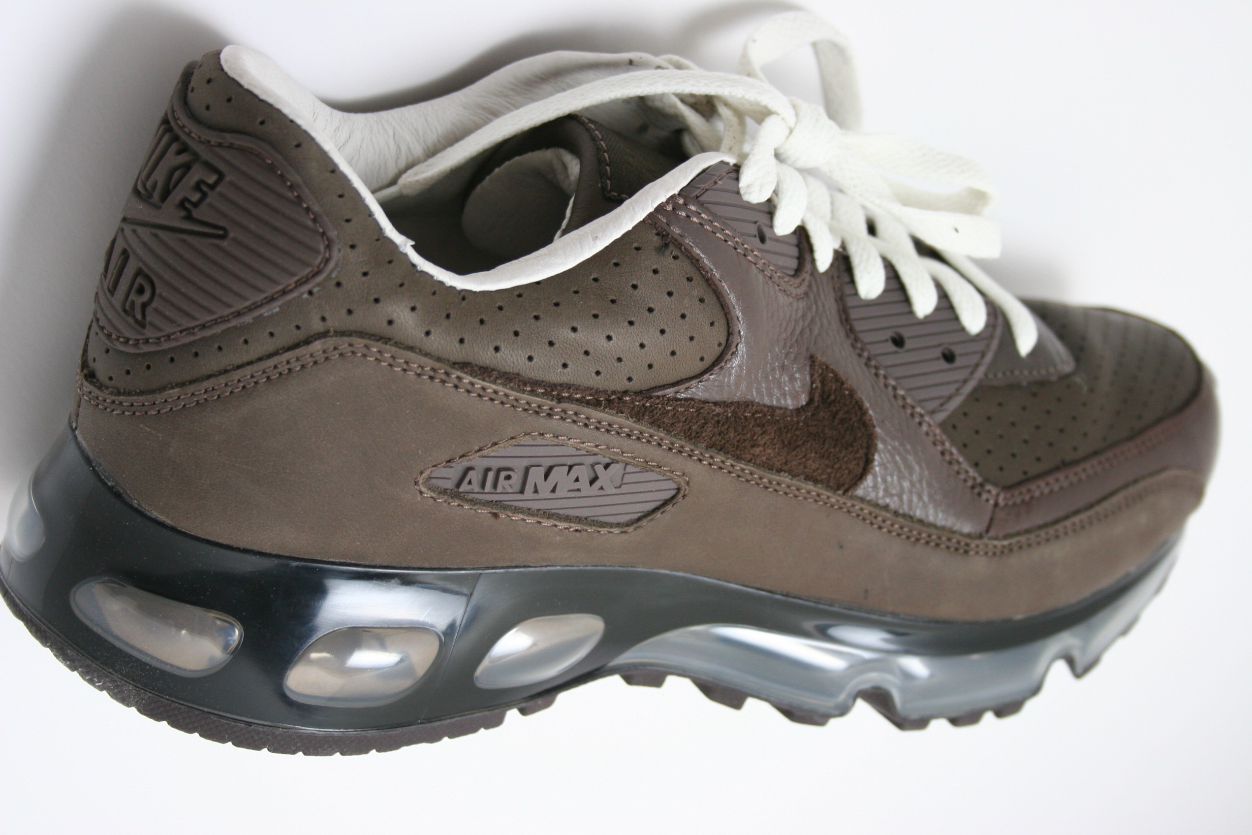 Part of the the Nike One Time Only Release. The leather on these are sick! Not to mention the comfort with the 360 Midsoles.